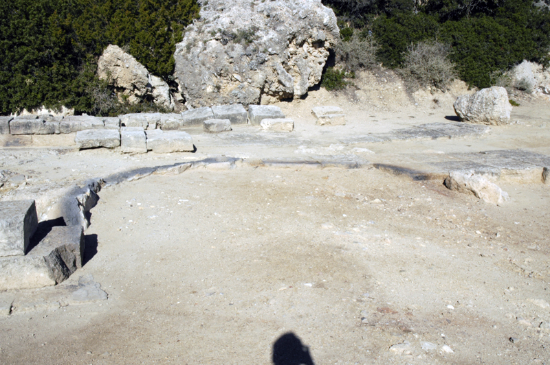 J. Matthew Harrington, personal digital image, November 16, 2006